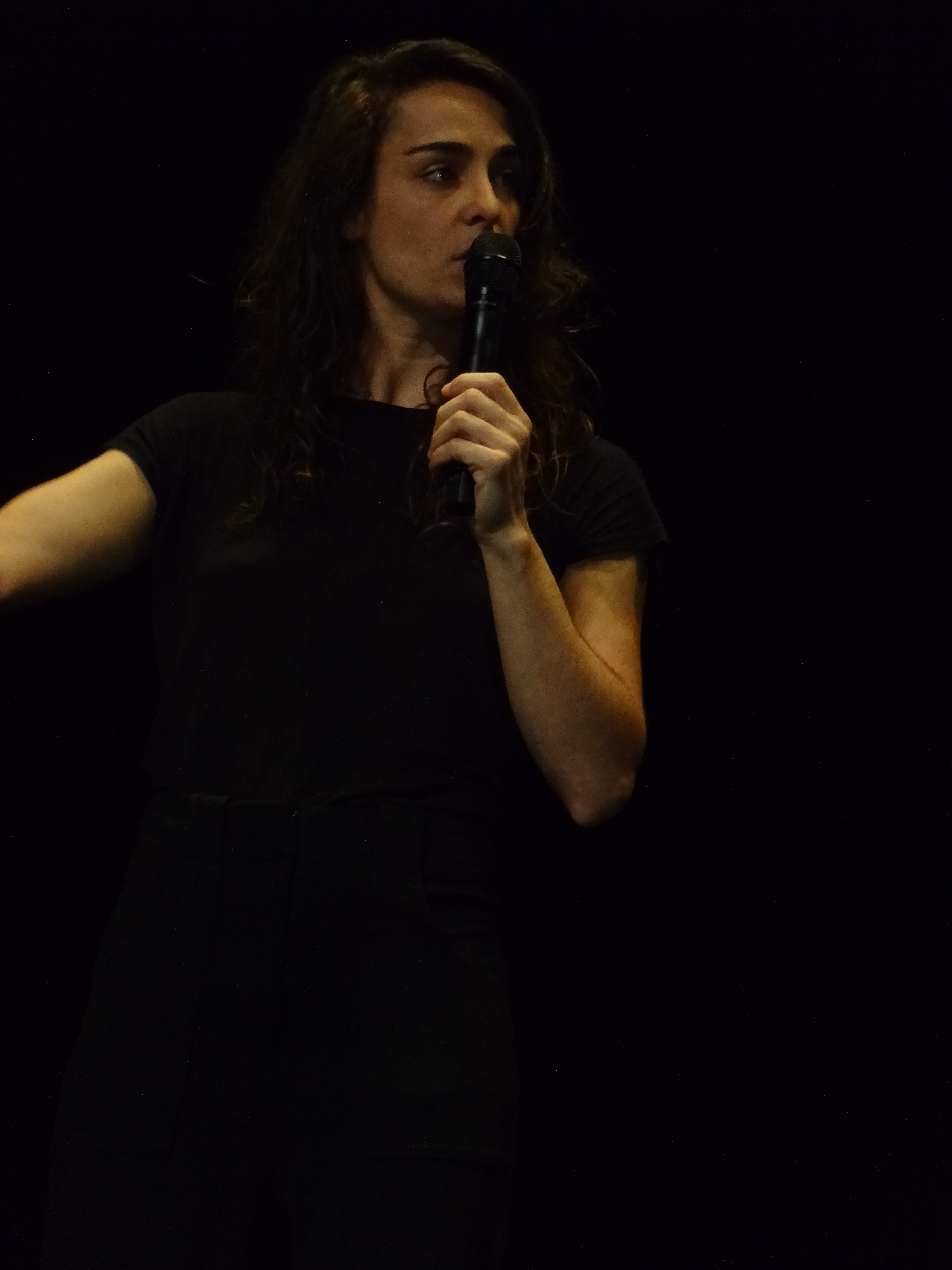 Argentinian film producer and cinematographer Magalí Mérida at a Q&A at Berlinale 2020